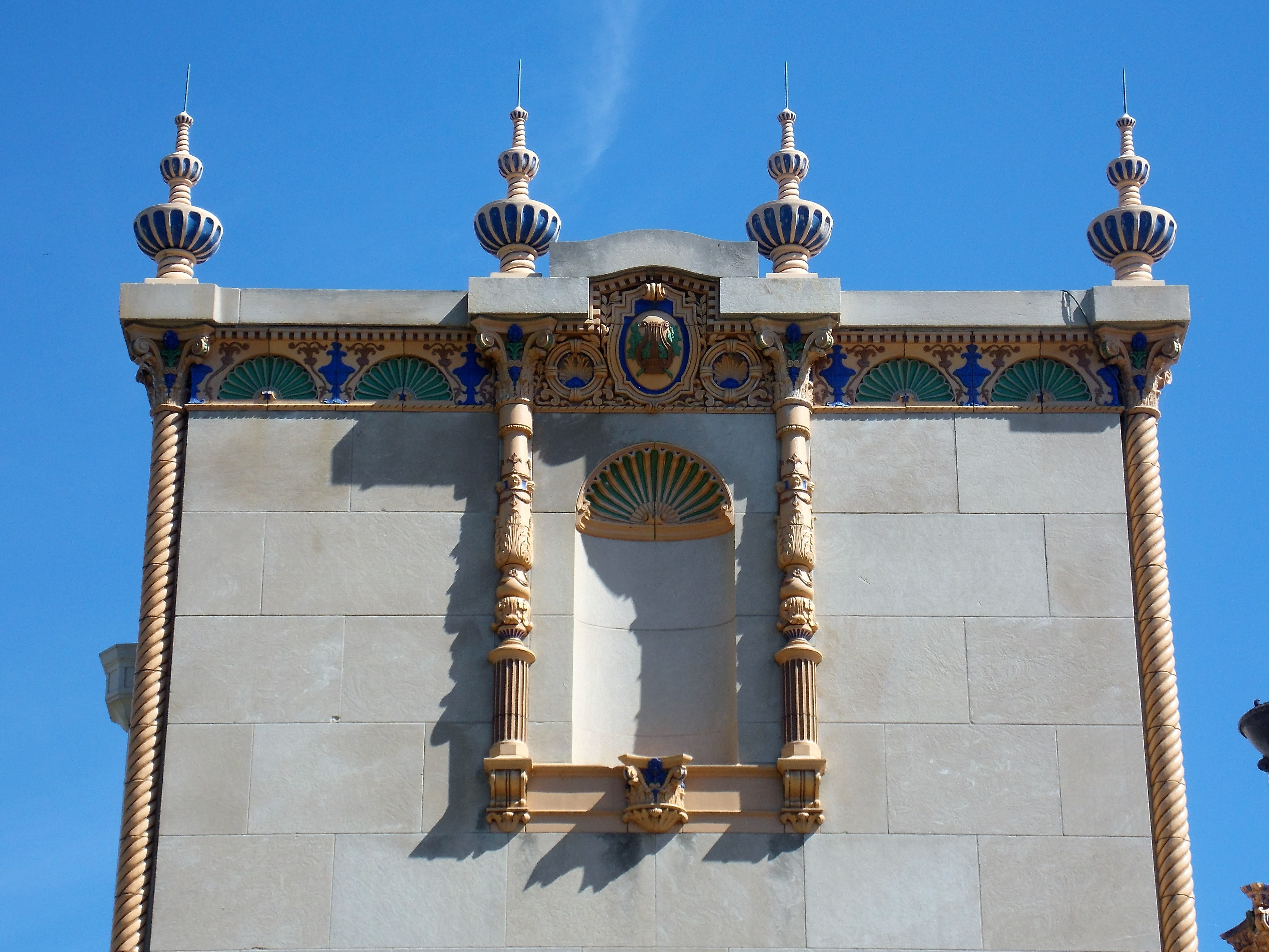 The W.D. Petersen Memorial Music Pavilion in Le Claire Park in Davenport, Iowa is listed on the National Register of Historic Places.